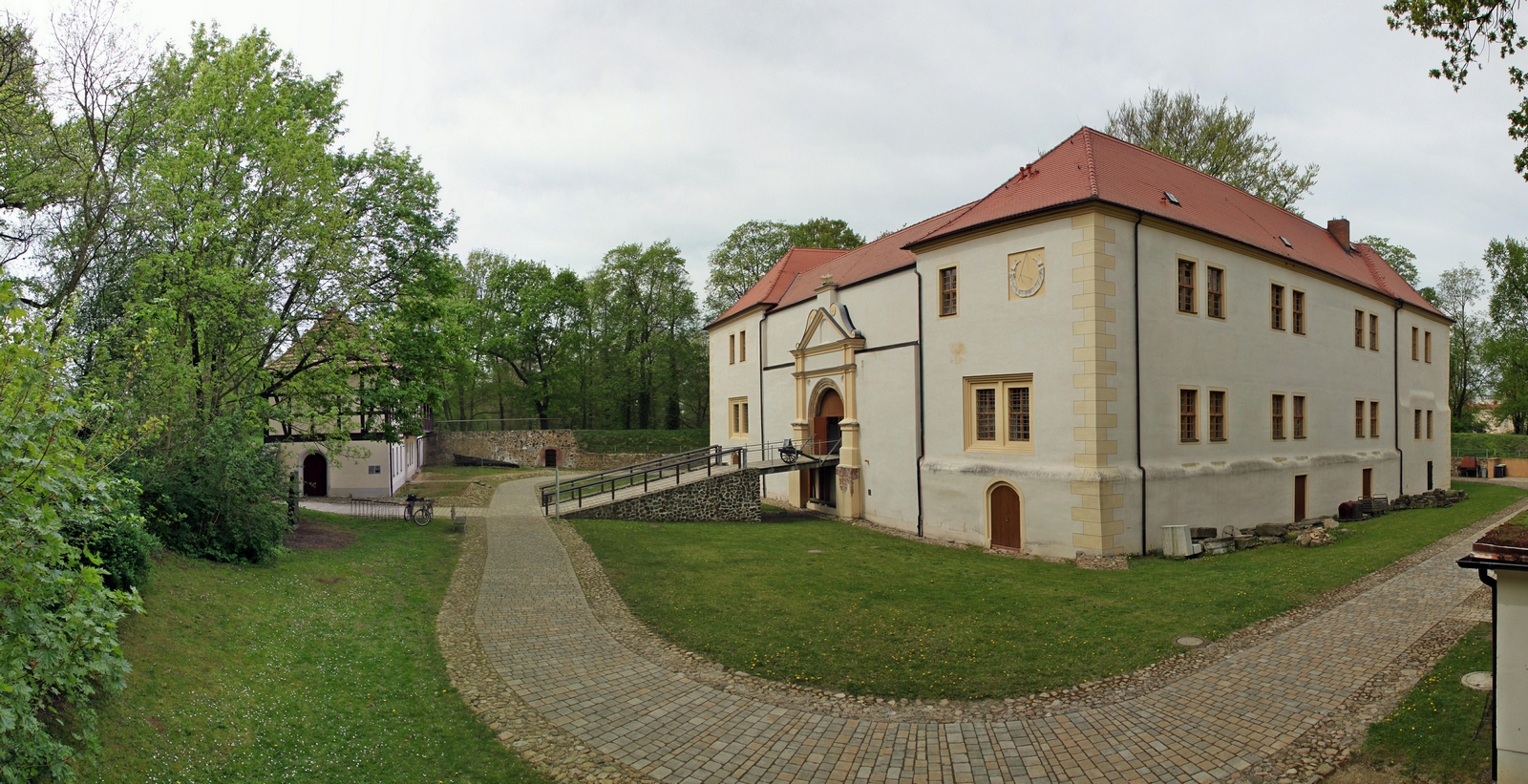 This image shows the castle inside the fortress Senftenberg (cultural heritage monument). Built as a medieval castle, Senftenberg became then an impressive fortress in time of the Renaissance. The fortress is surrounded by a nearly square earth wall with four bastions still completely preserved today.